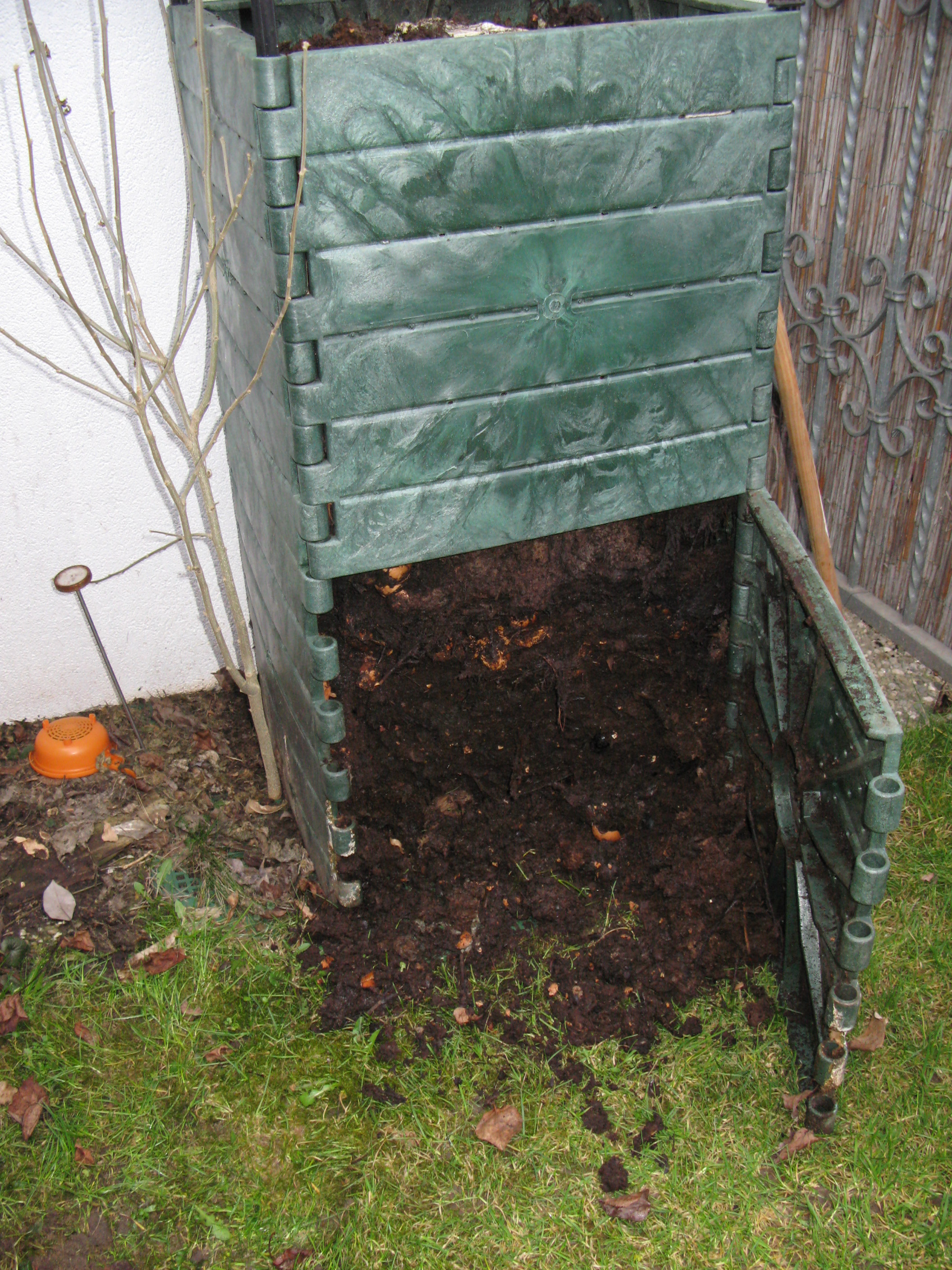 I think it looks too compacted, I should have added more structuring material such as wood chips. Also no earth worms visible (too cold?). Photo March 2012 by E. von Muench